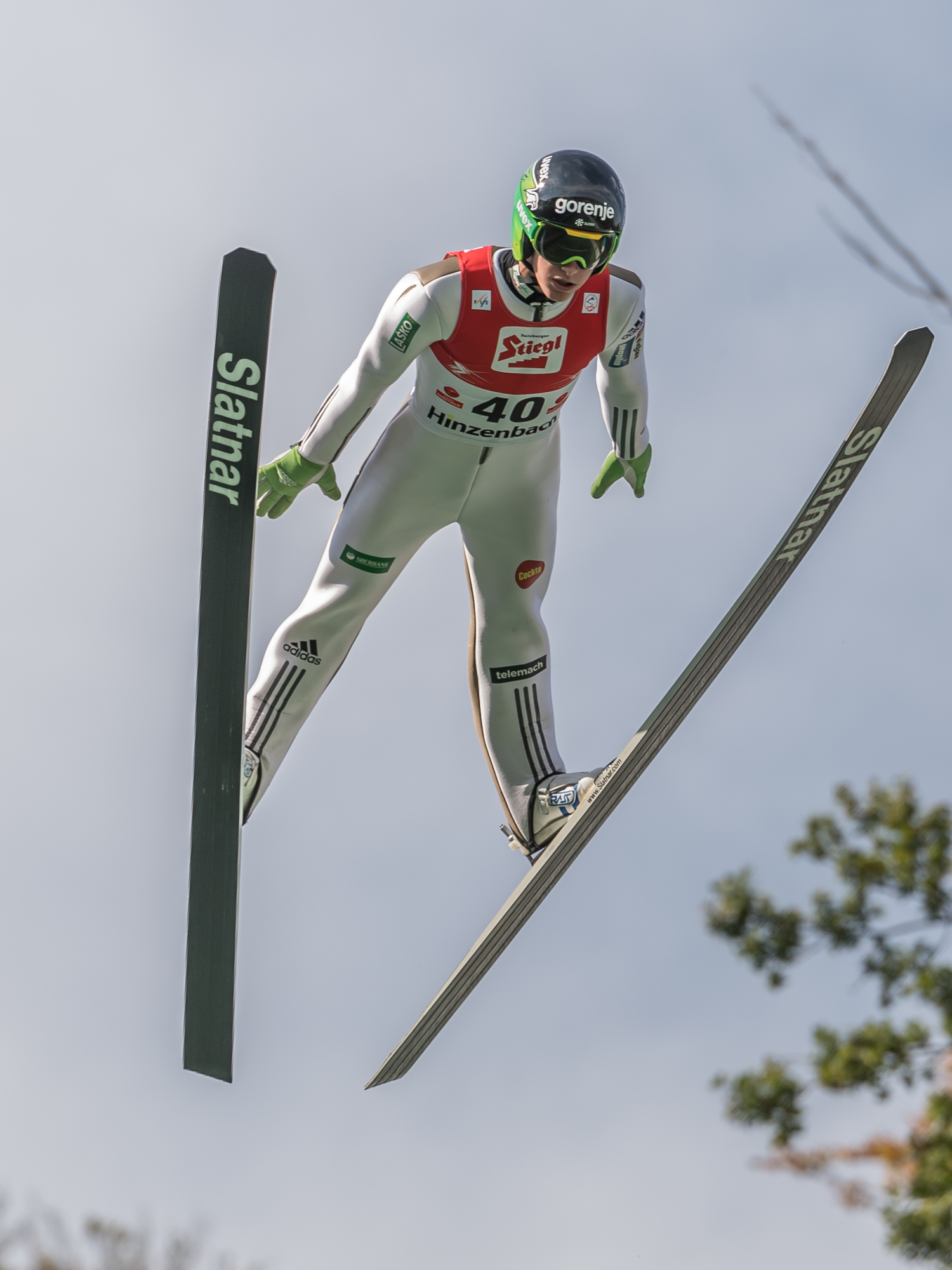 Hinzenbach, Austria, FIS Ski Jumping Grand Prix 2016